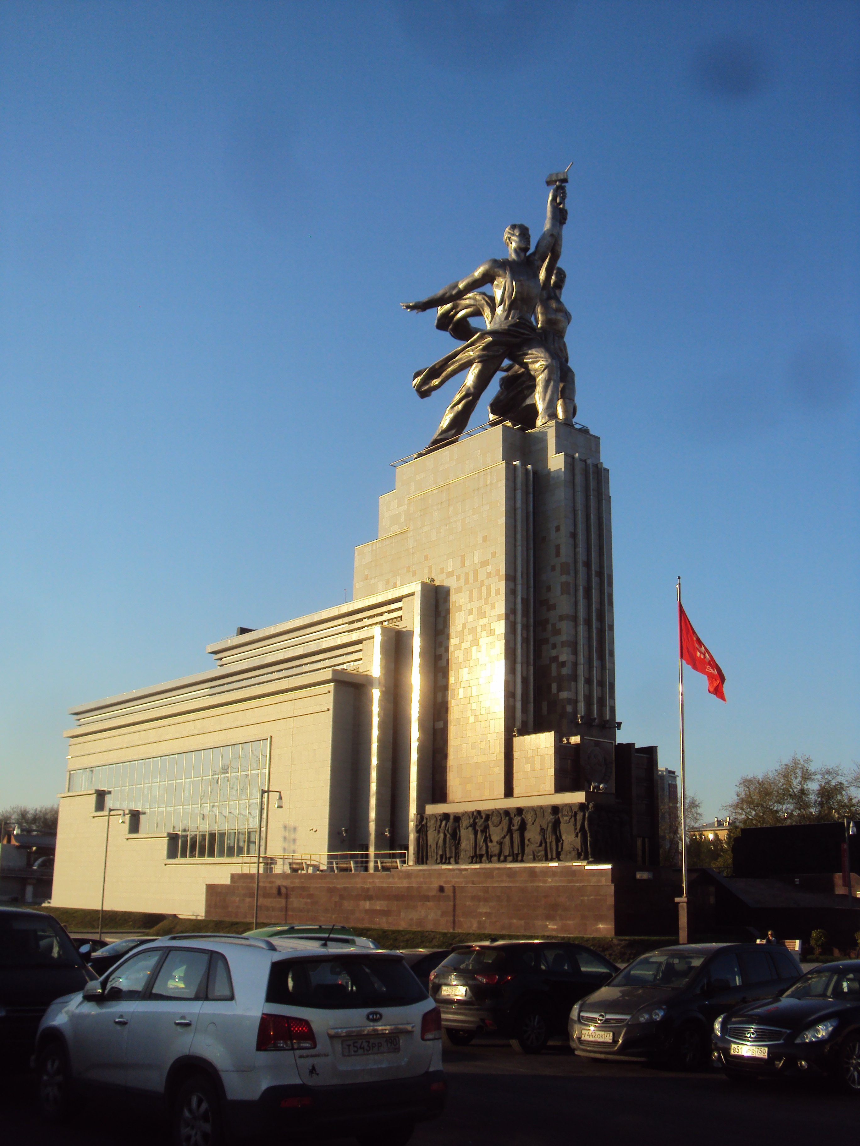 The sculpture "worker and collective farm girl"